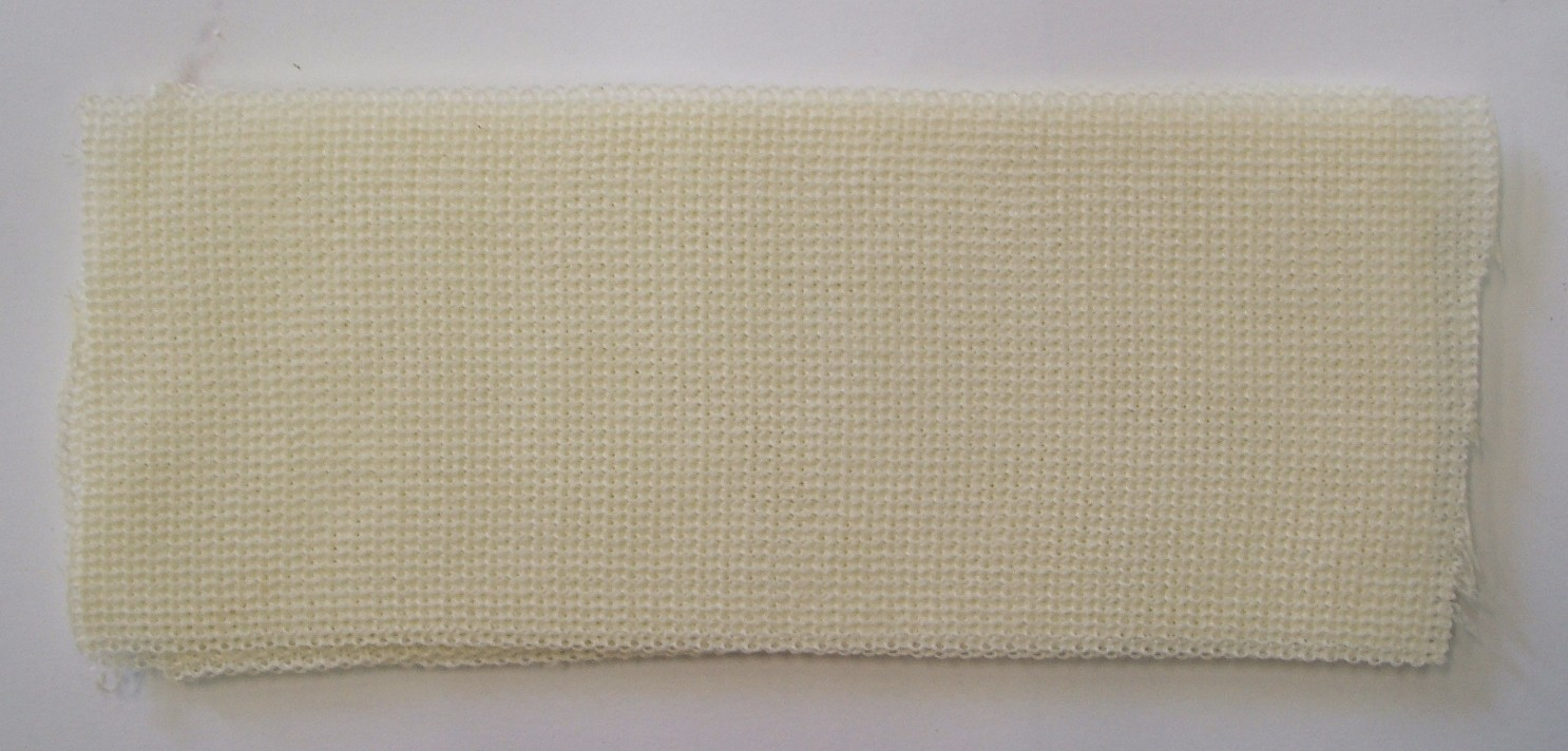 A flat sheet of fibreglass casting material 4 layers thick